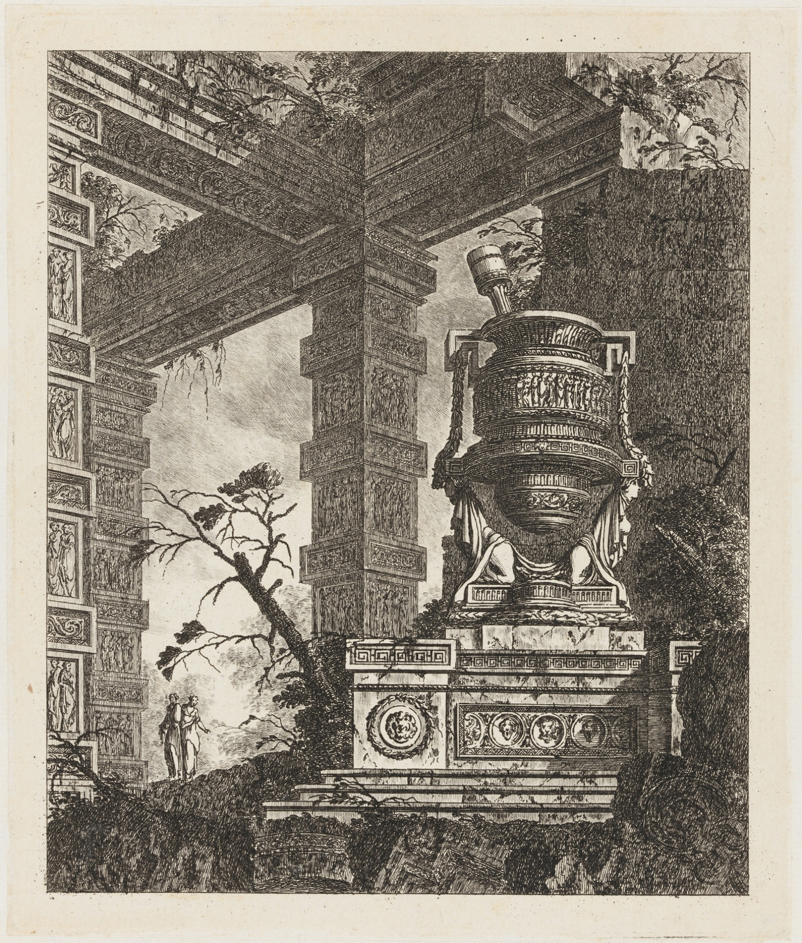 Collection of various subjects vases, tombs, ruins and fountains …